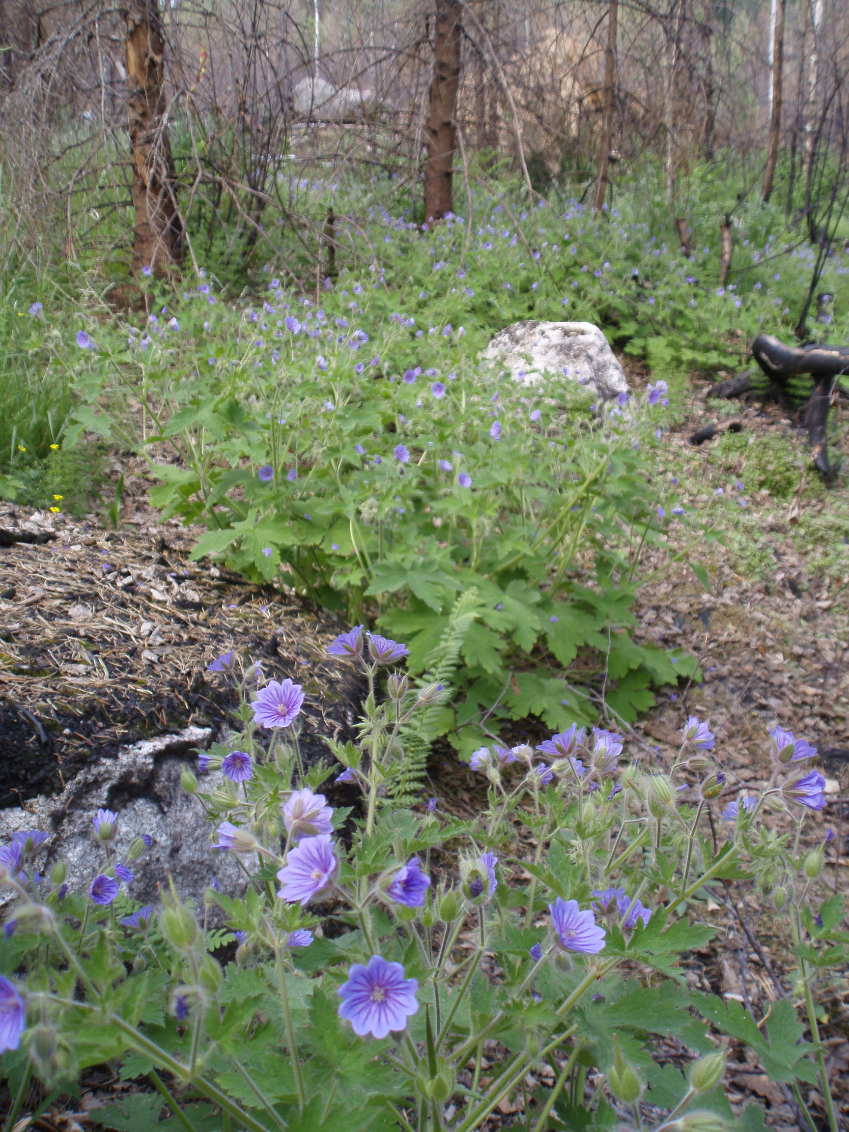 Geranium bohemicum June 11, 2011 at a fire site from July 2010. Close to Ärla, Sörmland, Sweden.